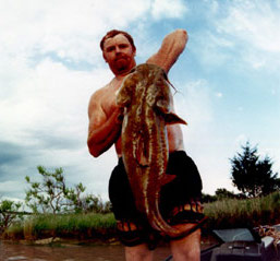 Picture of Lee McFarlin, noodling guru.